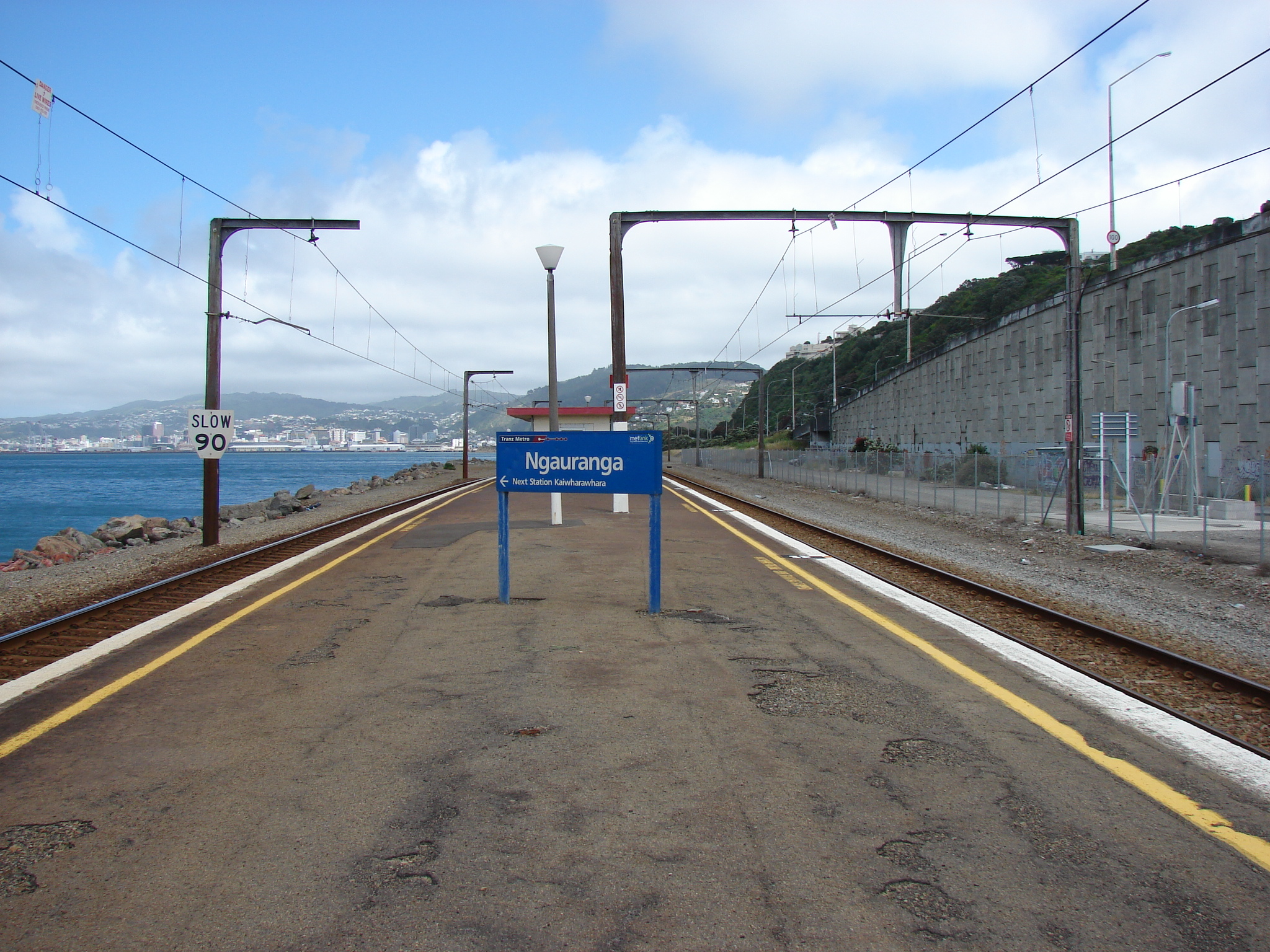 Ngauranga railway station, looking south in the direction of Kaiwharawhara. Photographed by Matthew25187 on 2007-12-24.